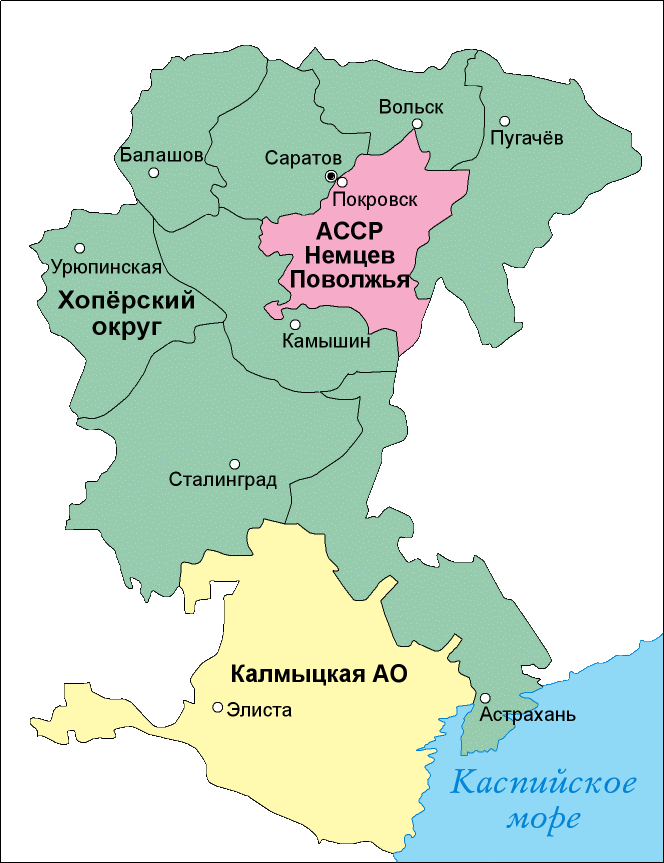 Map of Nizhne-Volzhskiy kray (USSR), 1929